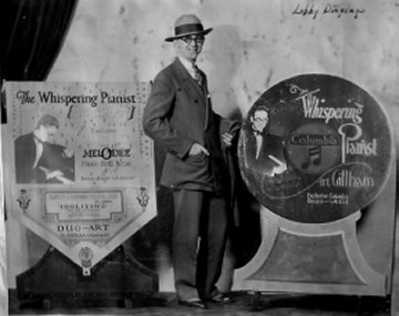 Art Gillham standing between theater lobby displays of his Columbia Records and his piano rolls for Mel-O-Dee and Duo-Art